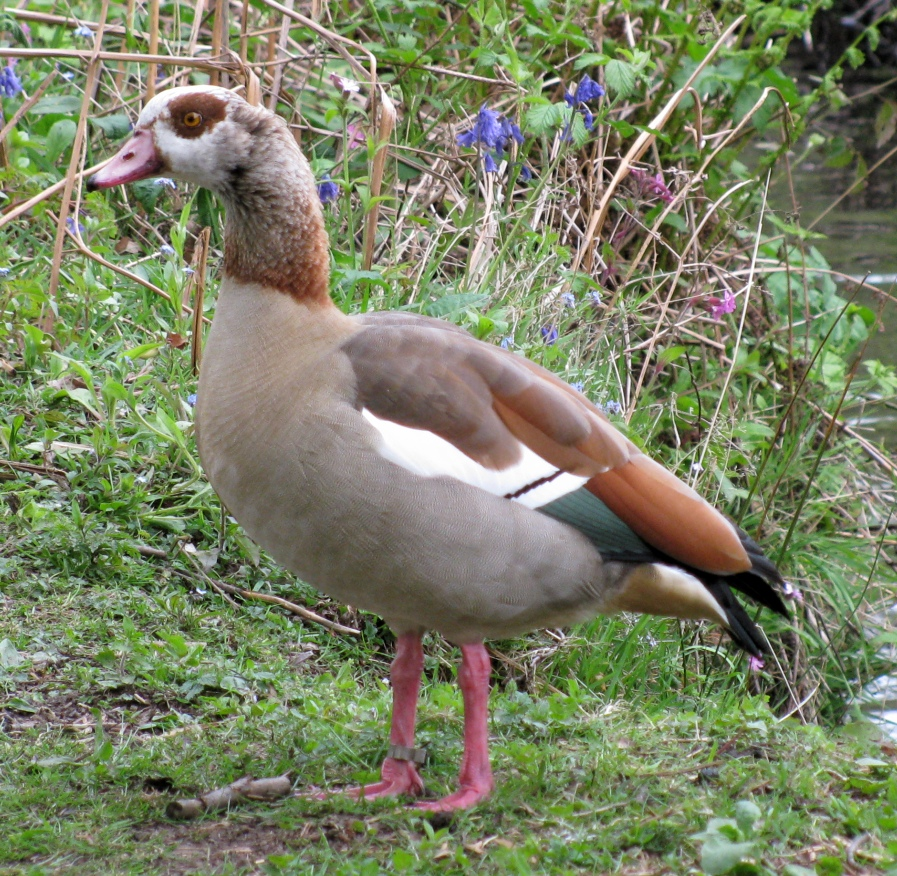 Egyptian goose (Alopochen aegyptiaca)